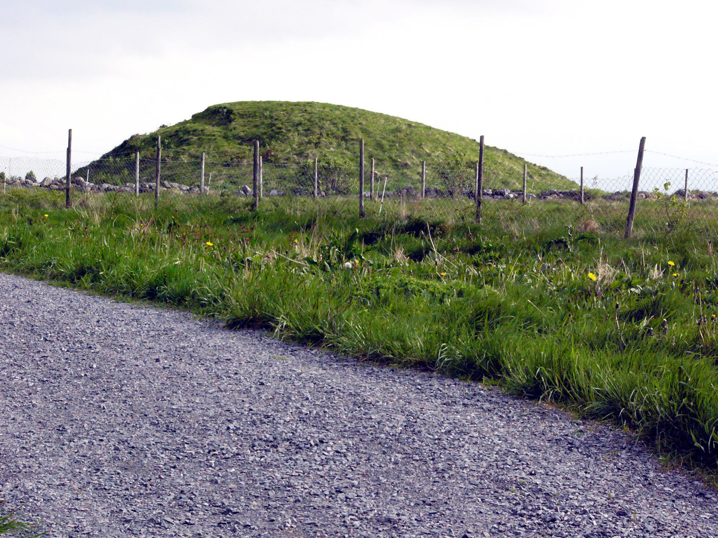 Burial mound in Karmøy.